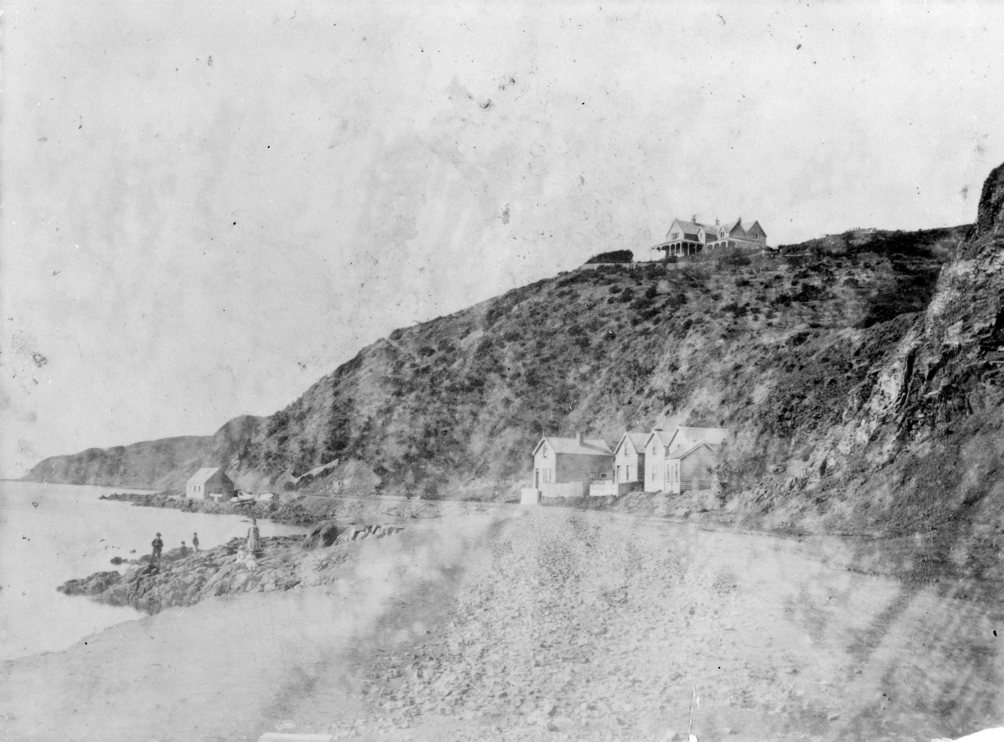 Oriental Bay, Wellington showing James Edward Fitzgerald's house on top of the hill.